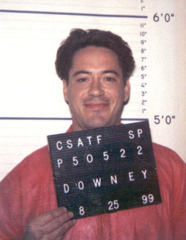 Actor Robert Downey Jr. photographed by the California Department of Corrections